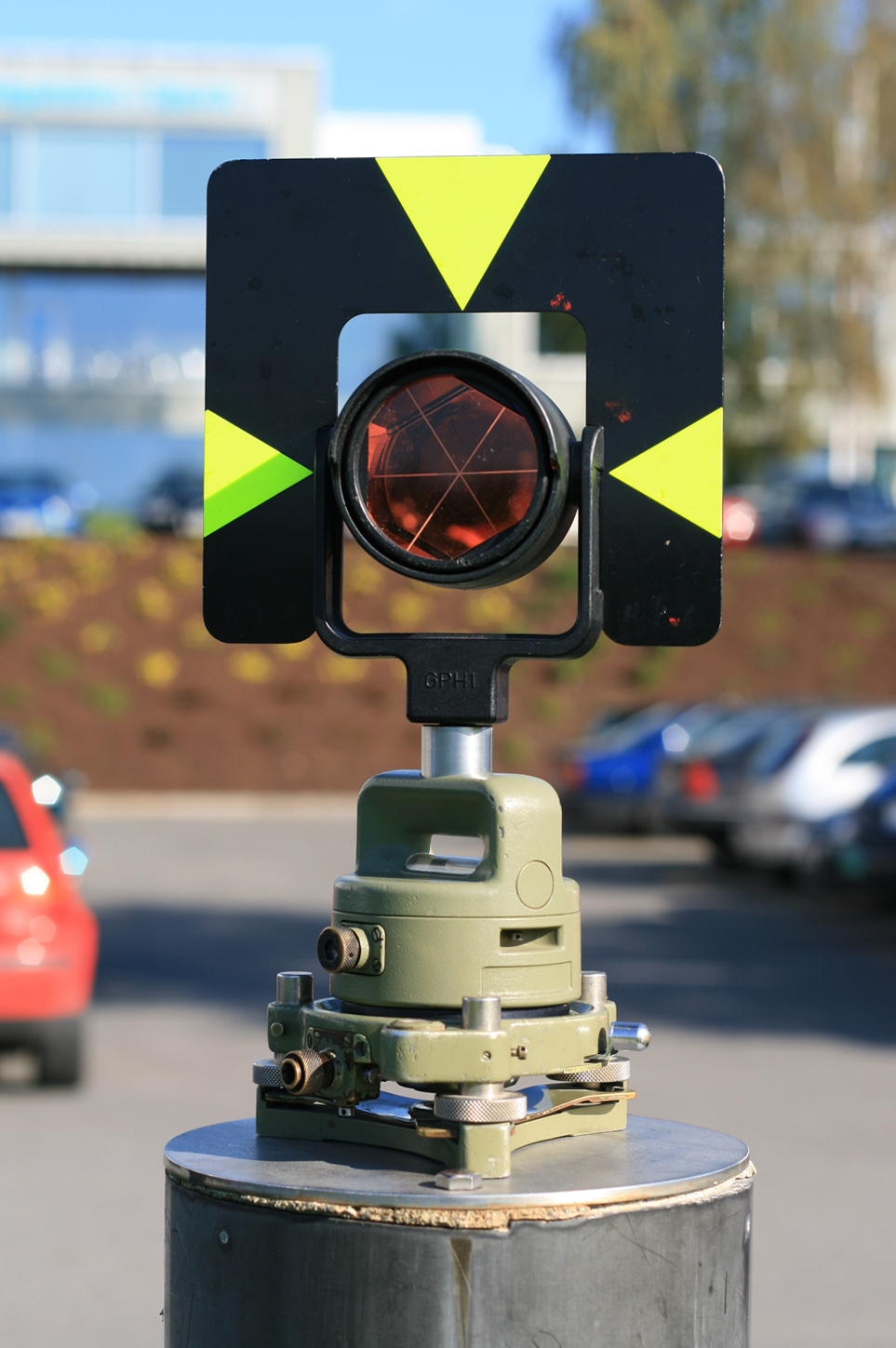 Reflector mounted on tribranch.